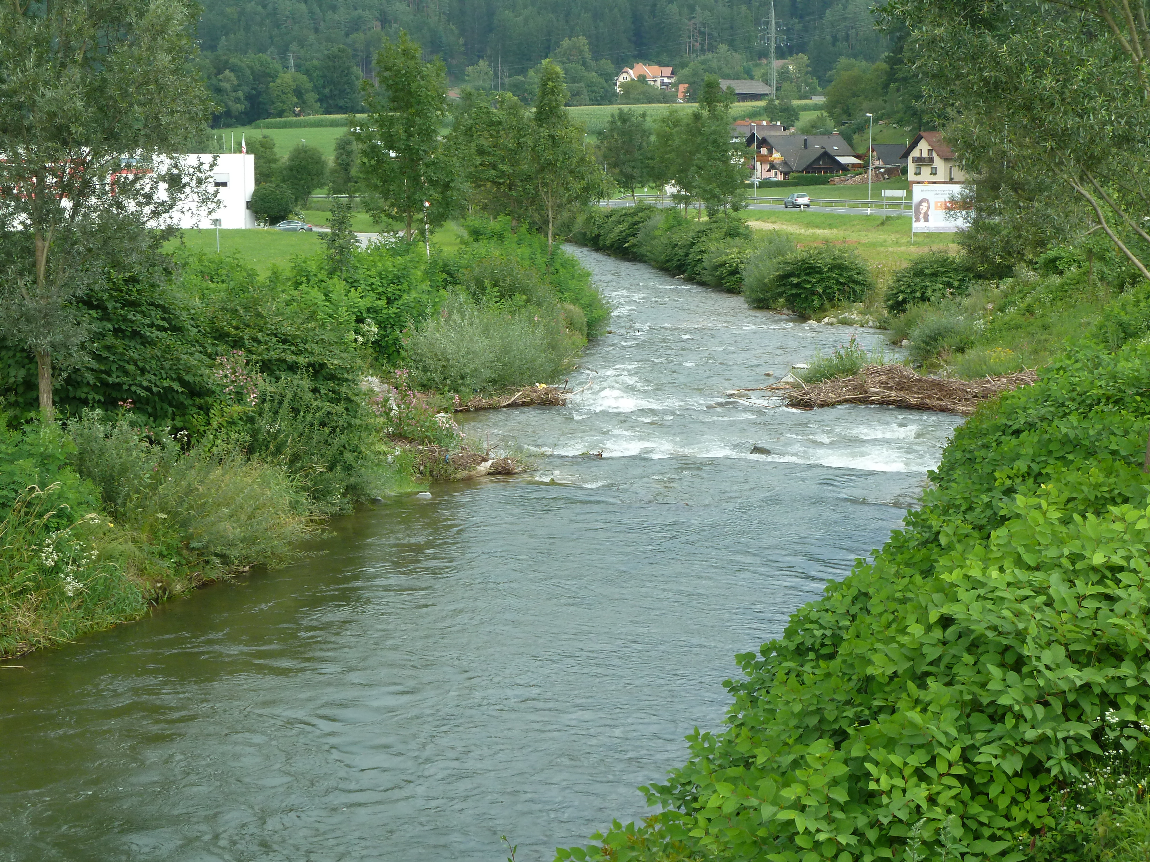 Mislinja River downstream from Slovenj Gradec